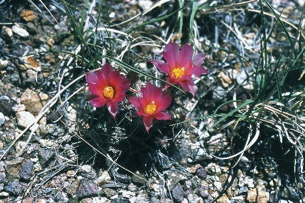 Sclerocactus spinosior